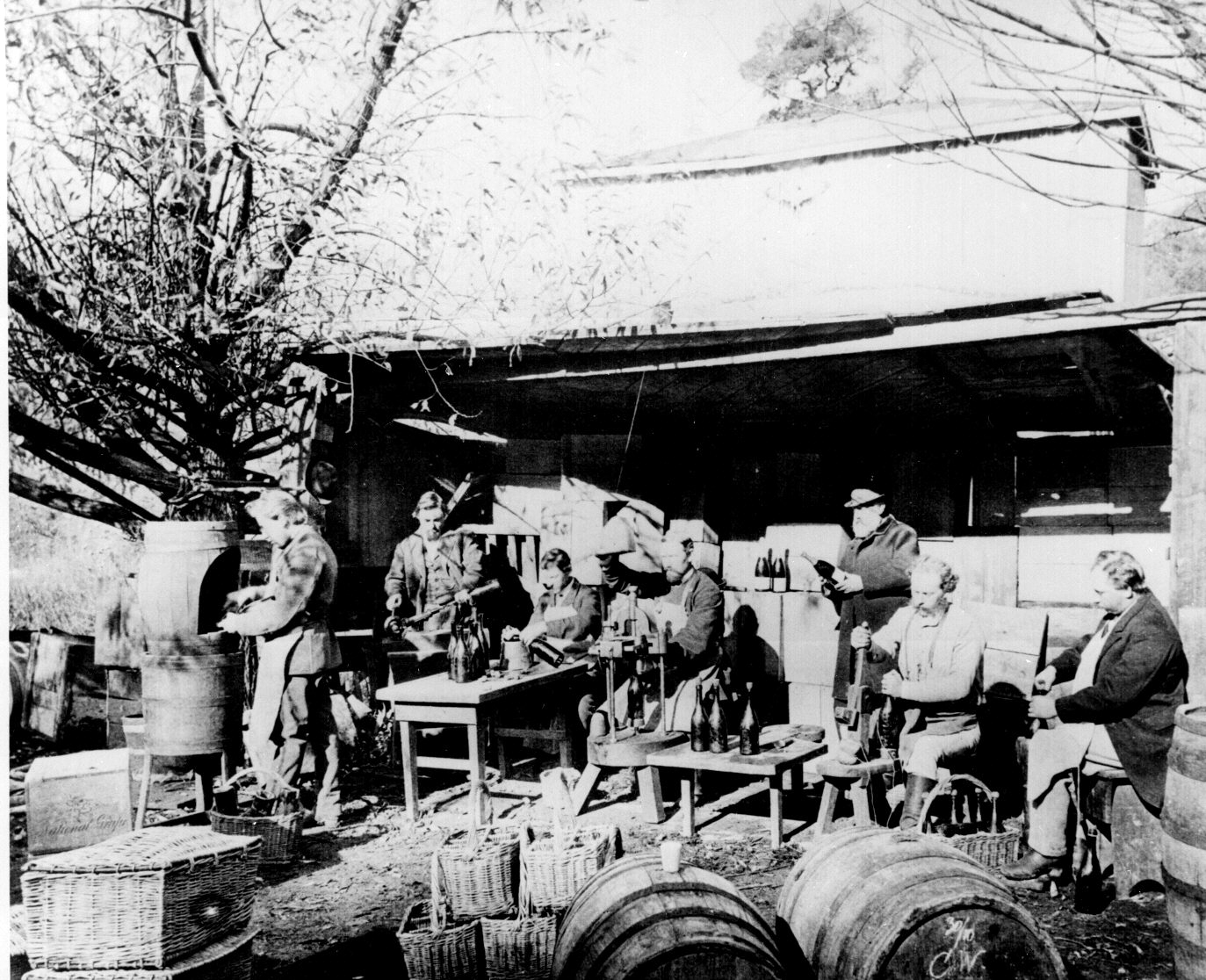 "This picture, taken by [Eadweard] Muybridge, of San Francisco, at Buena Vista Vineyard, Sonoma, California, in the early 1870's, was captioned `Champagne Corking.' It shows a shed where various processes of disgorging, perfecting the fill and recorking were carried on. The man inspecting the labeled bottle is B. E. Auger for many years an officer and trustee of the Buena Vista Vinicultural Society. Wicker baskets shown were woven by Chinese employees of the vineyard society; the finished champagne was packed in them for the market. The box near the disgorging apparatus bears the words, `National Grape' the name of one of Buena Vista's champagnes. The building at the rear of the shed is the brandy distillery operated in conjunction with the winery."